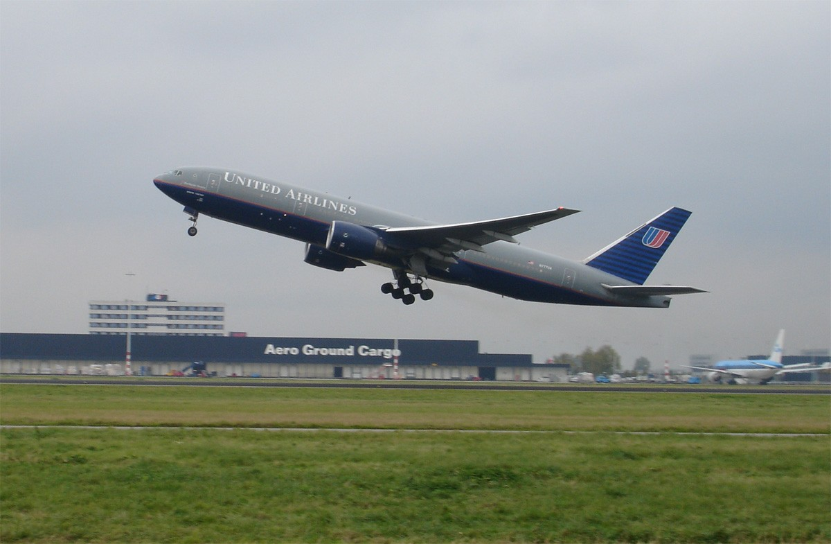 United Airlines Boeing 777 taking off at Schiphol Airport